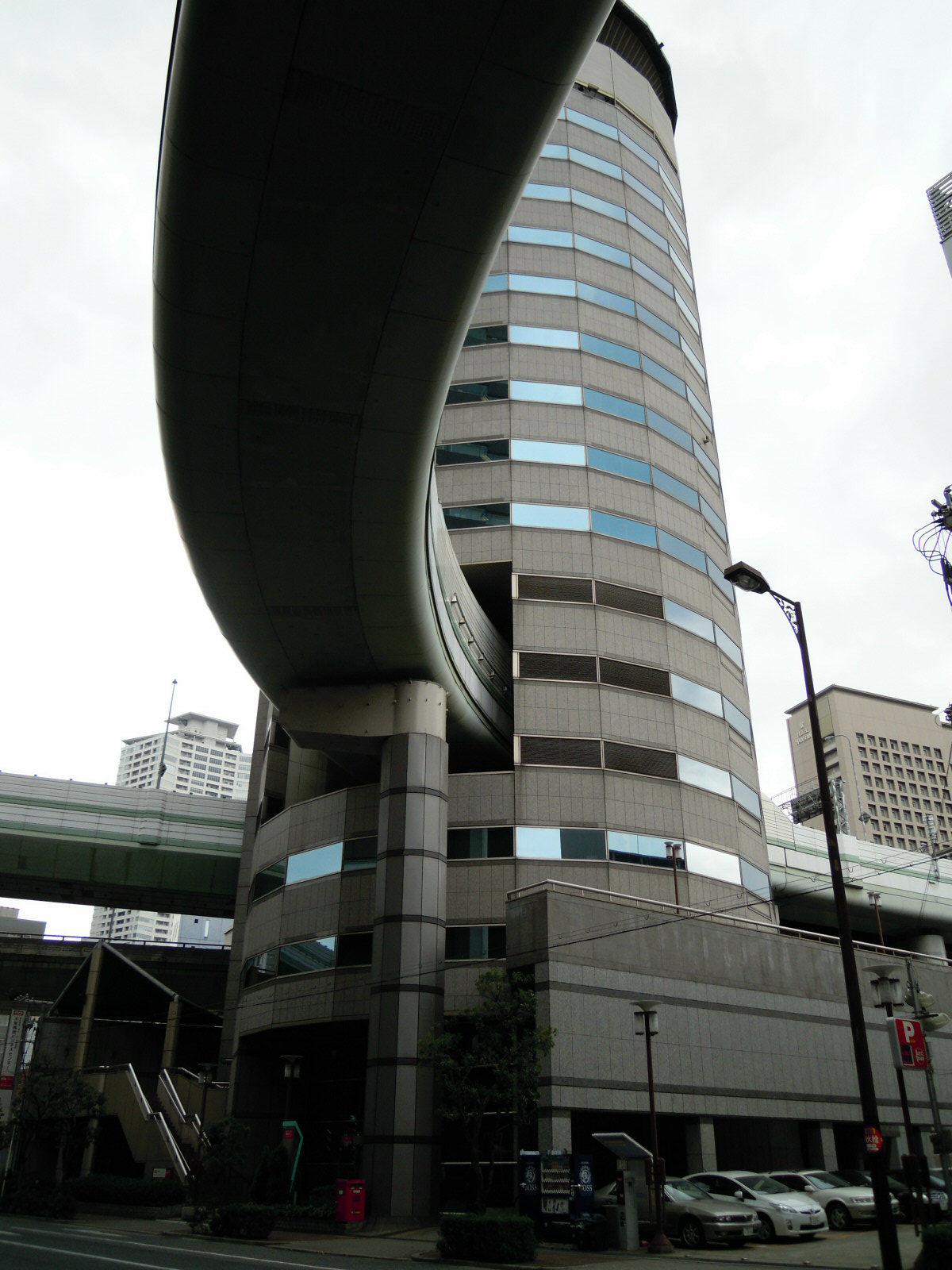 TKP Gate Tower Building